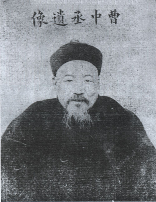 Cao Hongxun (1848-1910), politician of the Qing Dynasty.